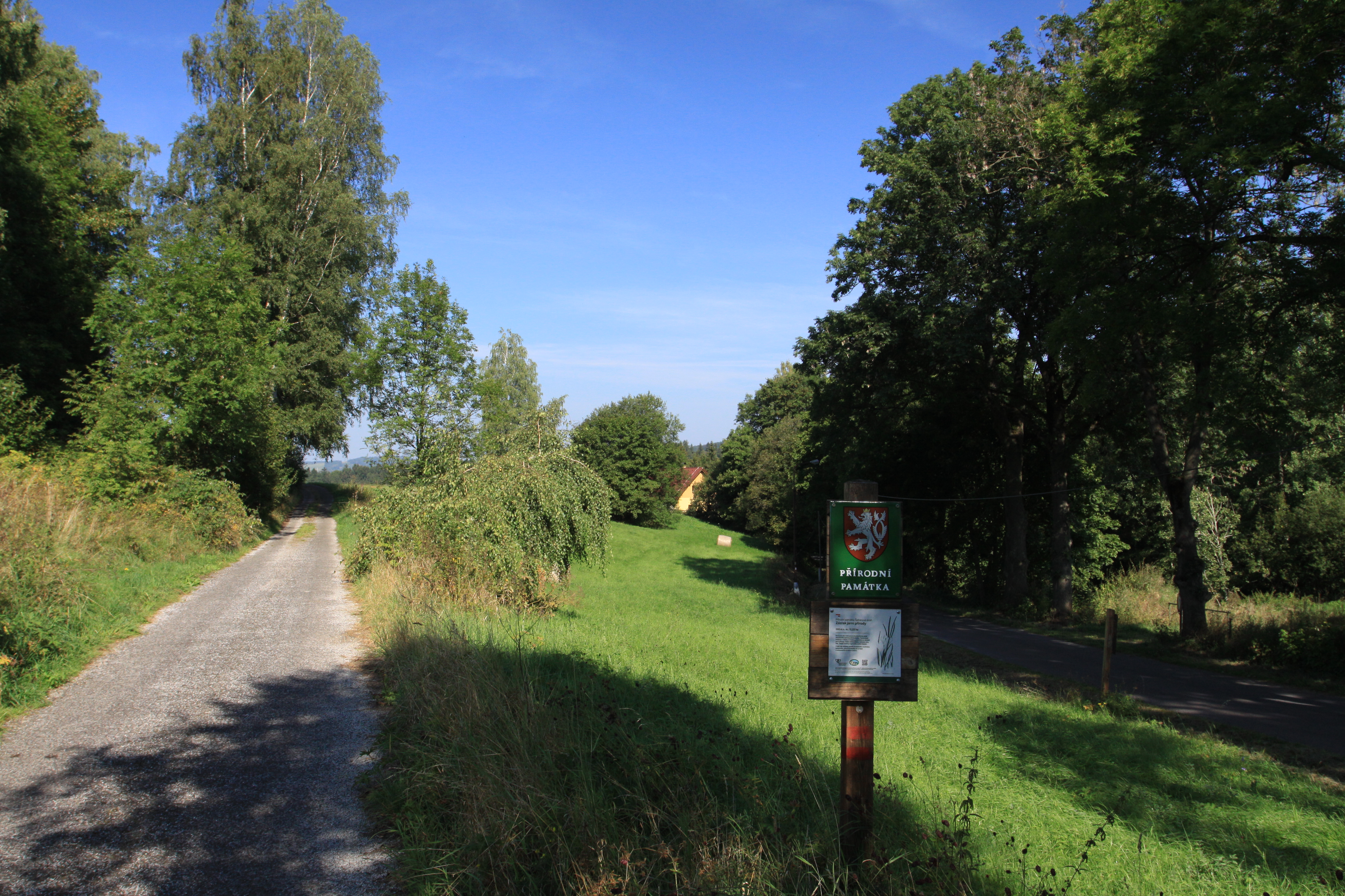 Natural monument Šafránová stráň located eastern from the vilalge Suchý Důl Náchod in the former Náchod District., Czech Republic